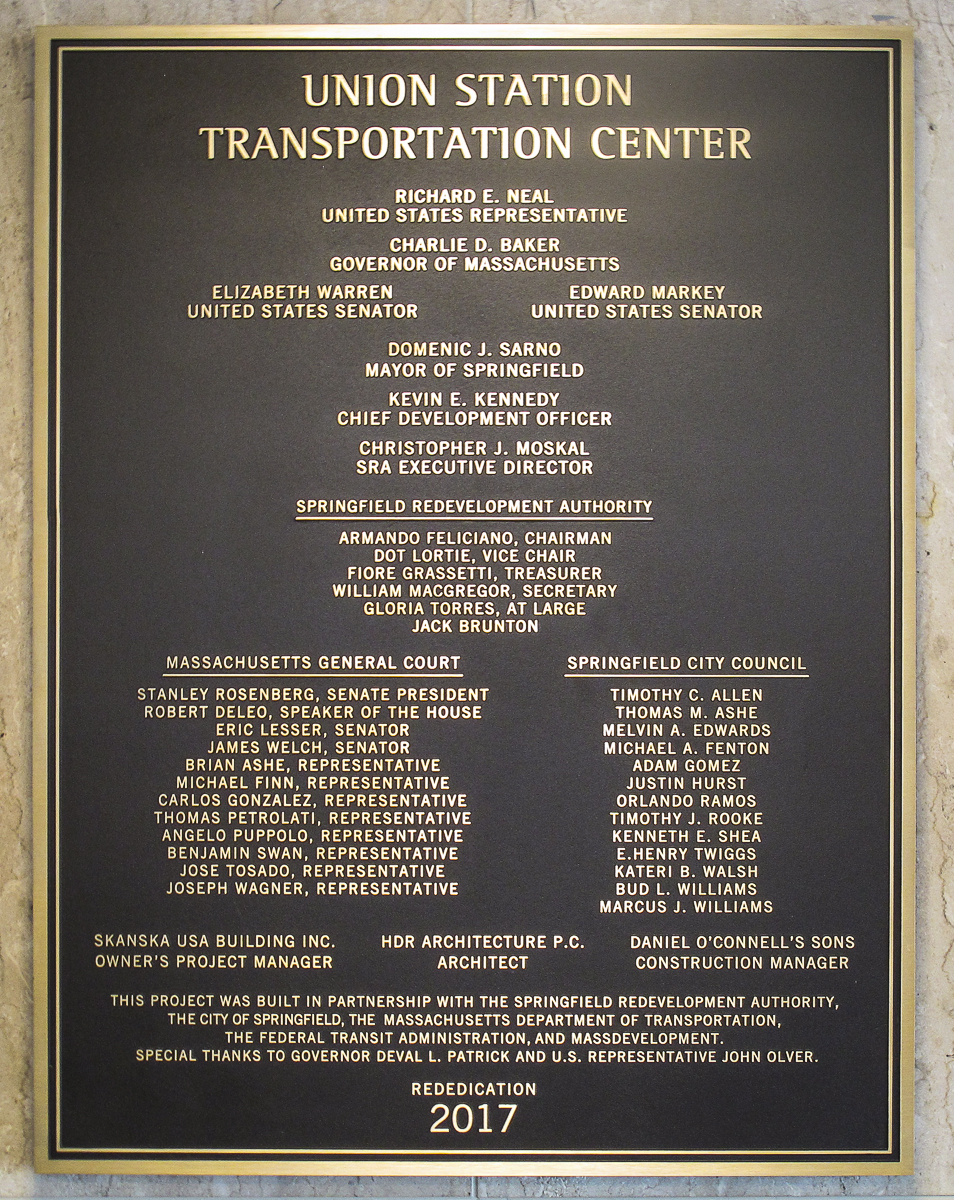 Bronze re-dedication plaque at the Union Station Transportation Center in Springfield, Massachusetts. The plaque is mounted inside the foyer of the building.